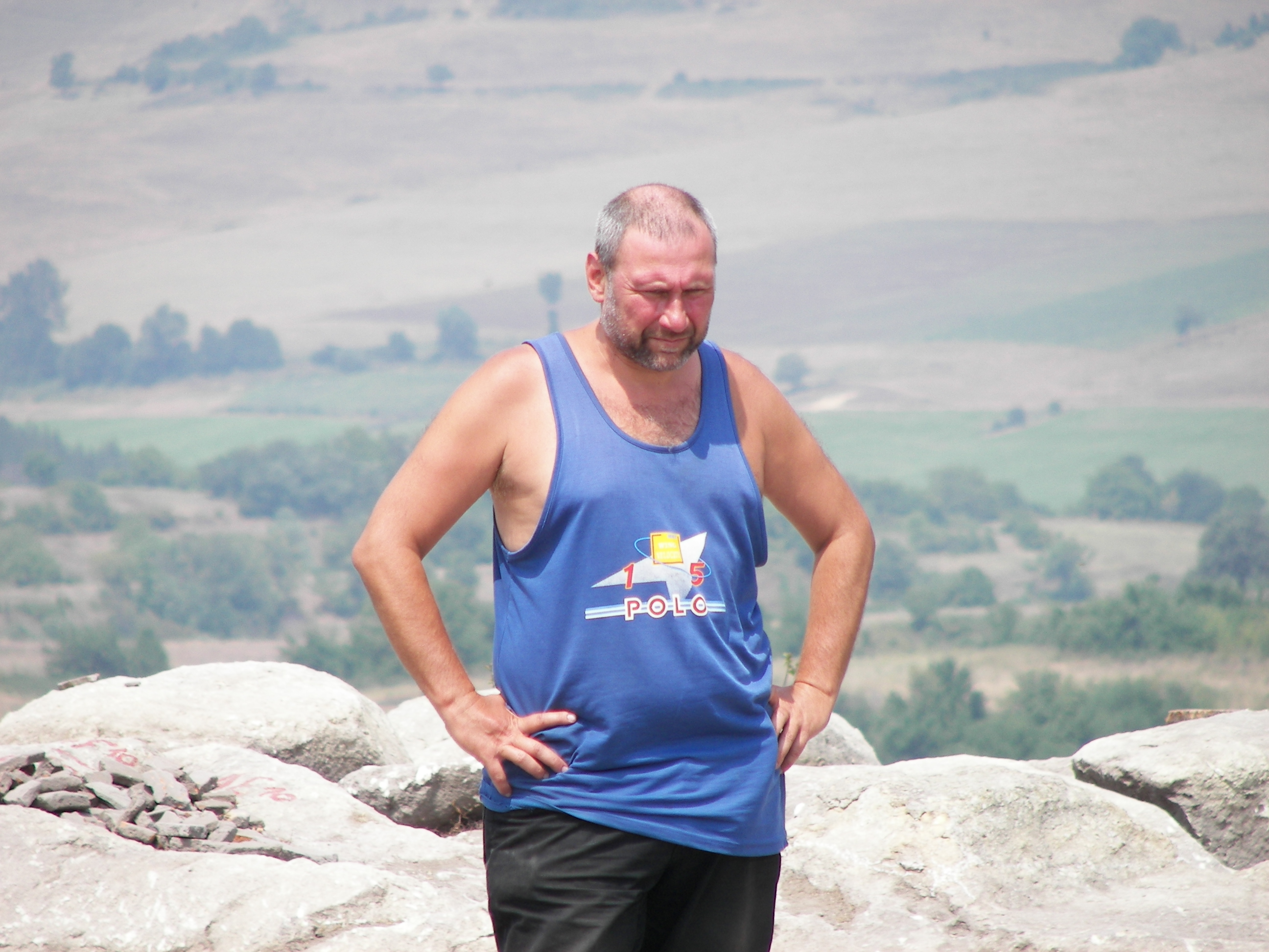 Professor Nikolai Ovcharov of Bulgaria at Perperikon Fortress.